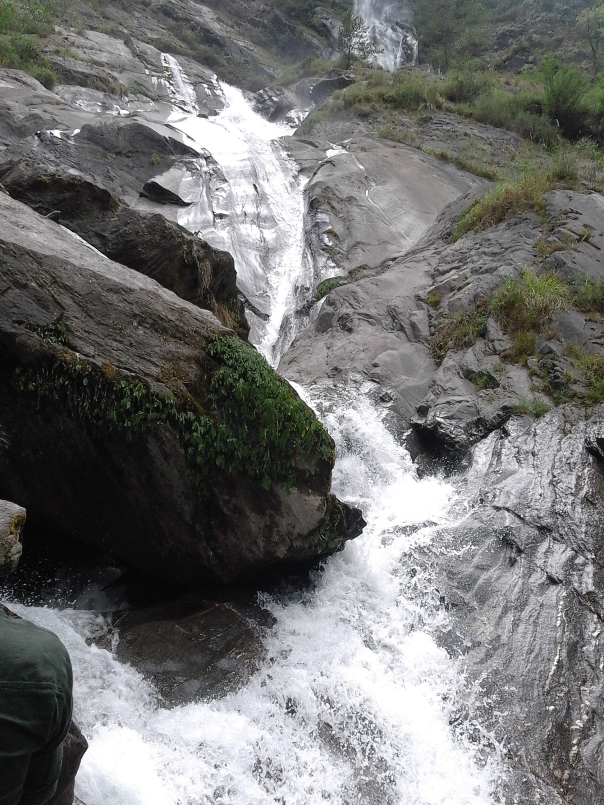 The milk like river flowing